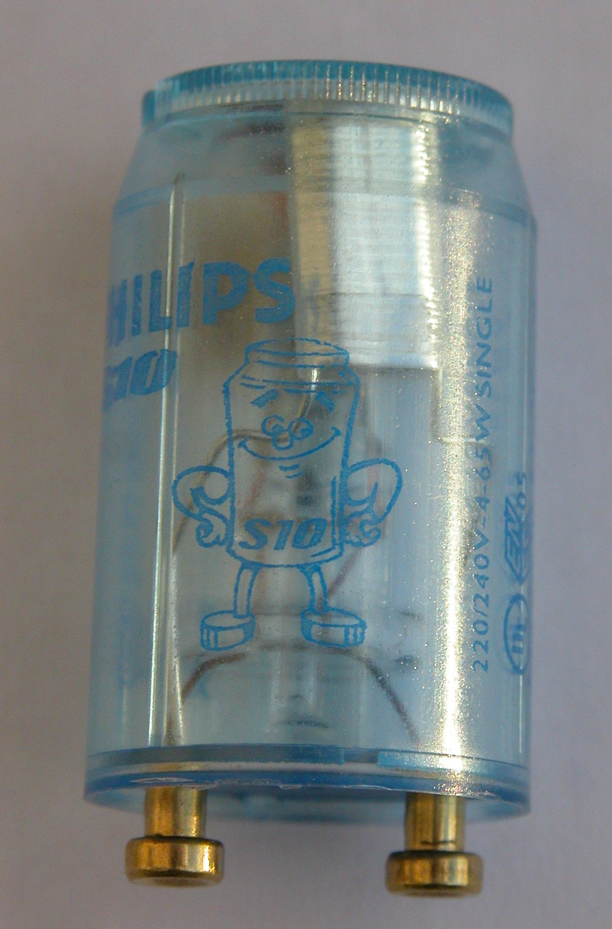 Fluorescent Lamp's Starter.